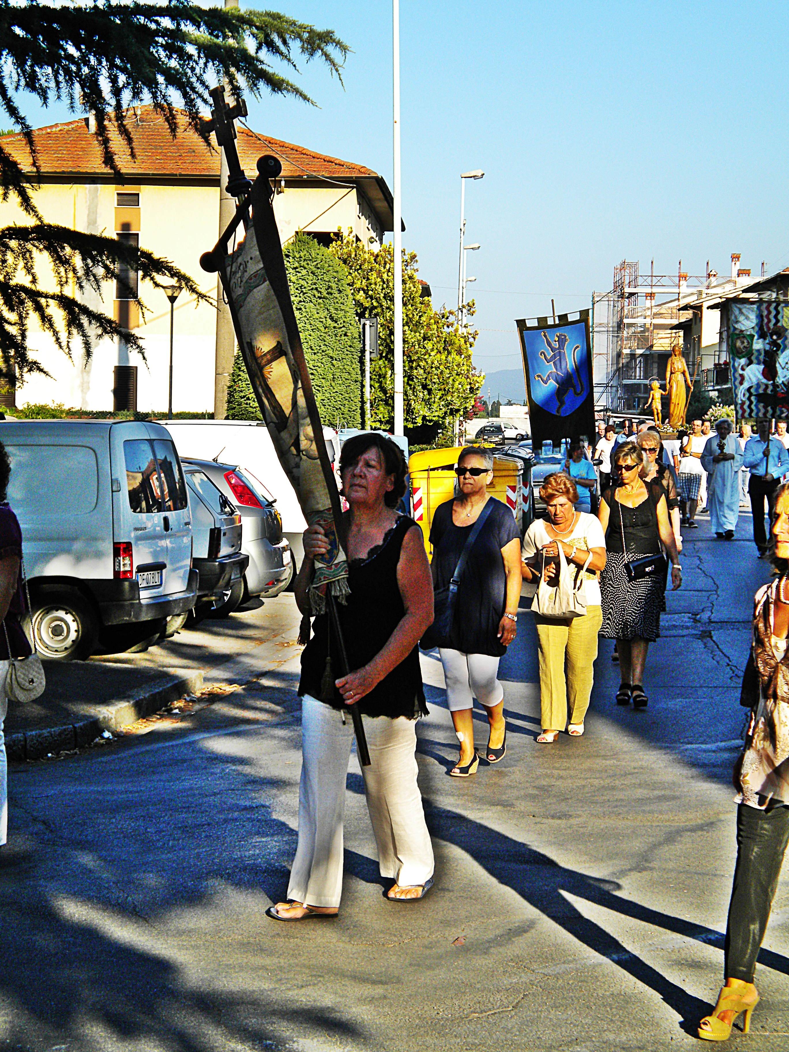 procession